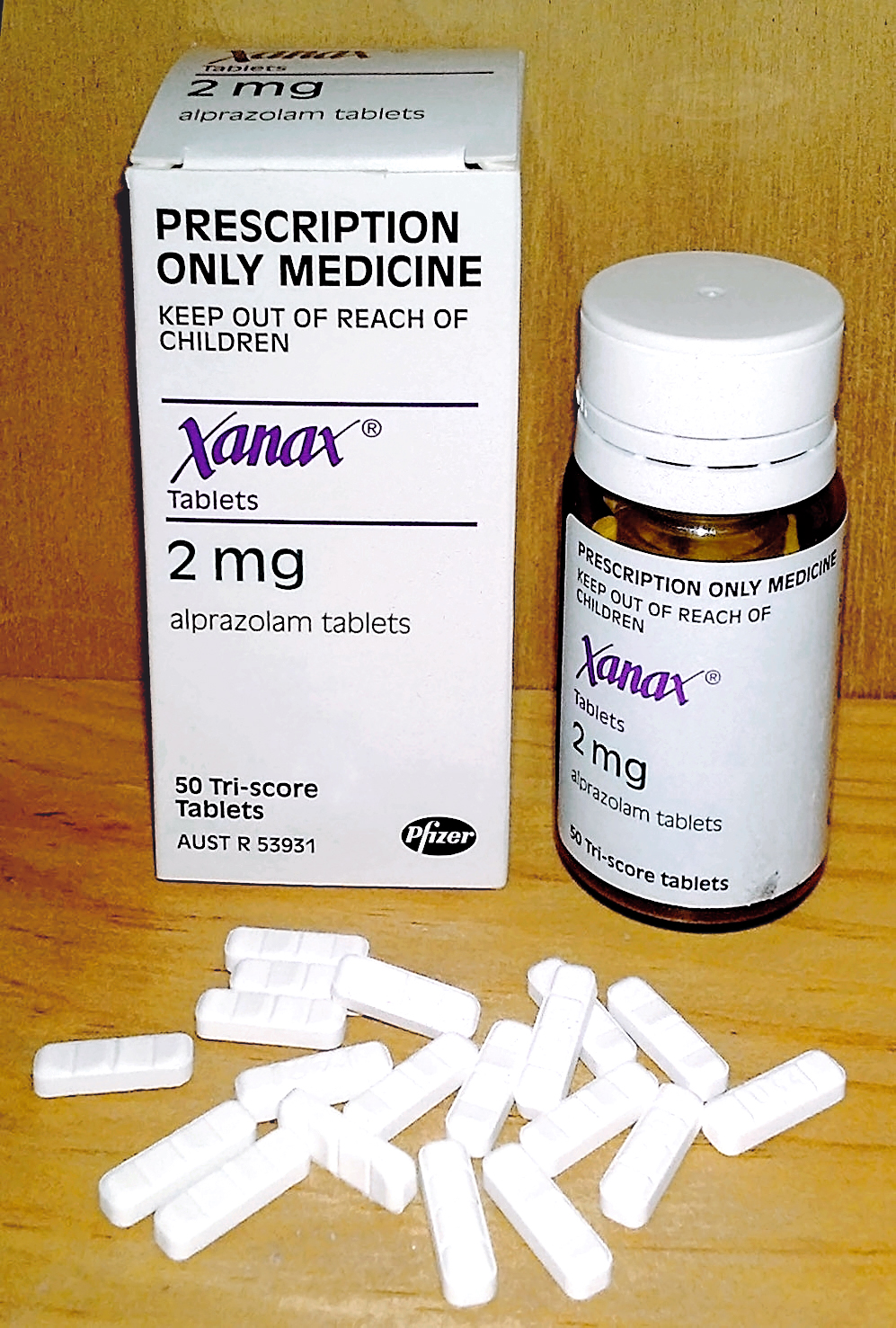 Xanax